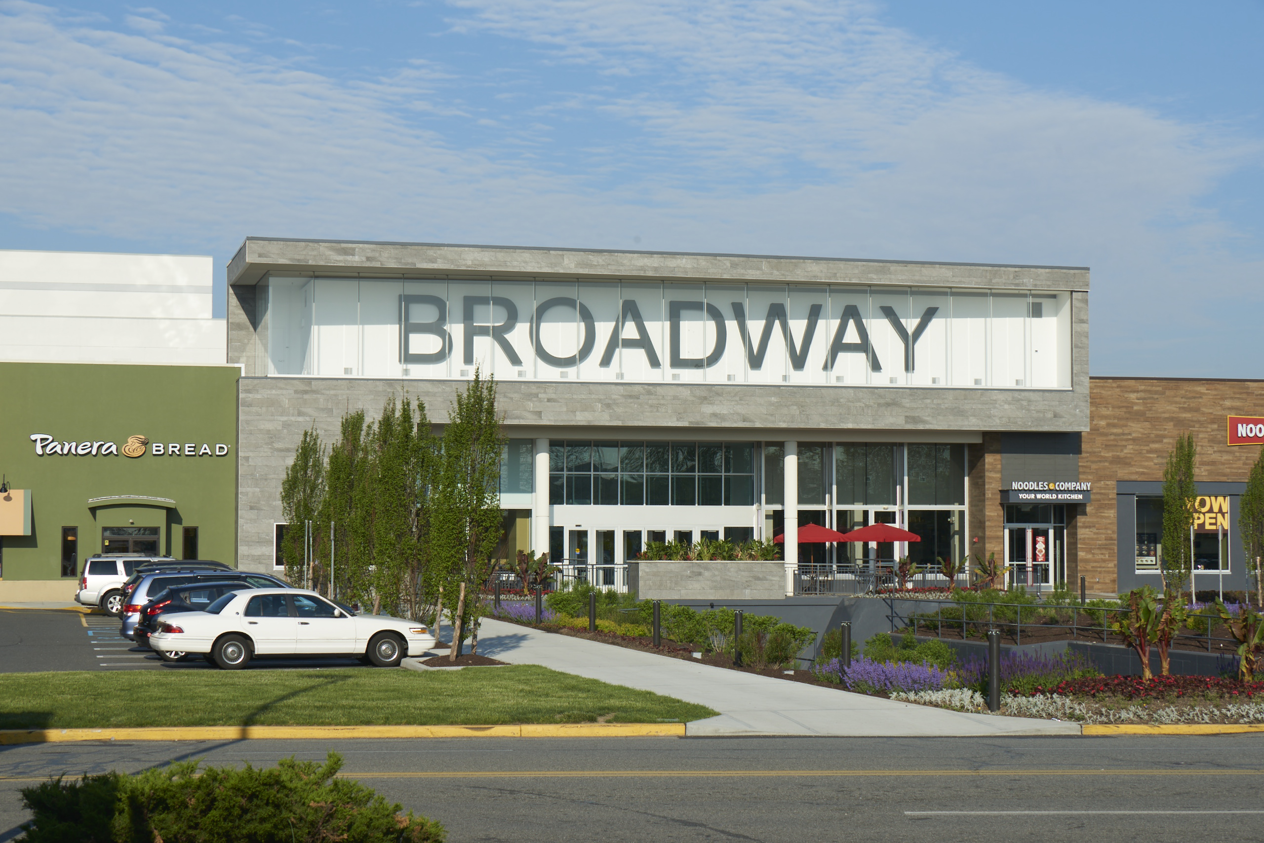 Main Entrance of Broadway Mall